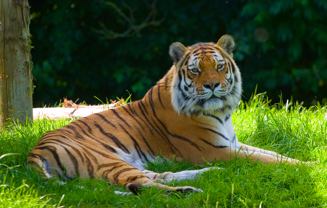 A Siberian tiger at Banham Zoo, Norfolk, England.